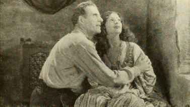 Still from the American film Under Two Flags (1922) with James Kirkwood and Priscilla Dean, page 64 of the December 1922 Photoplay.